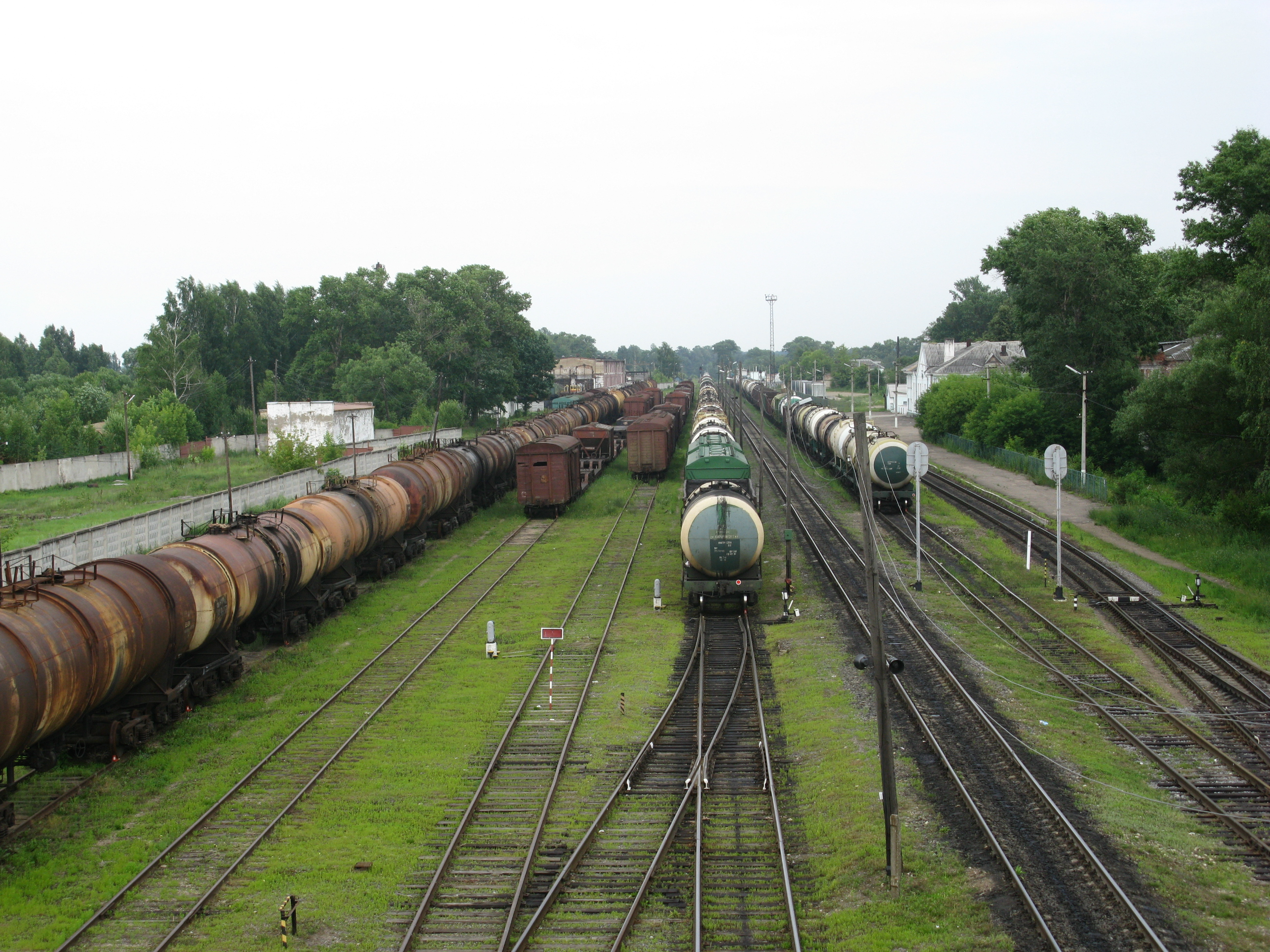 Rzhev-I, view of the station